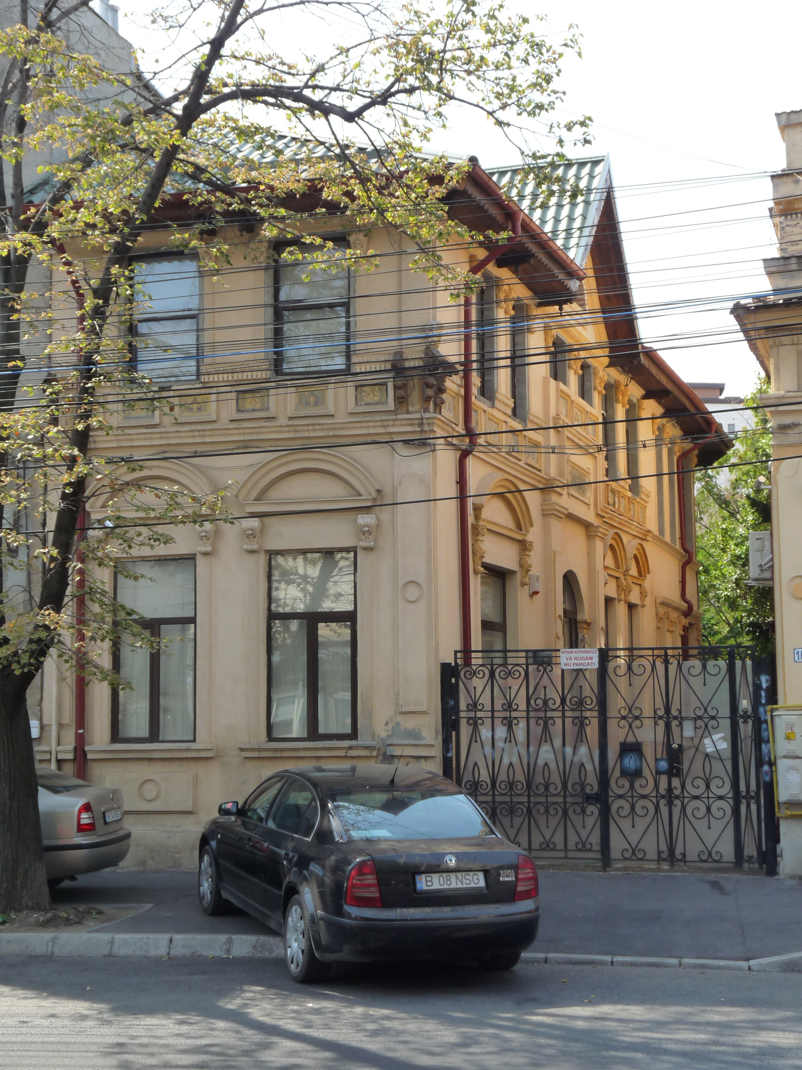 Historical building in Bucharest, Romania, on Polonă street 103